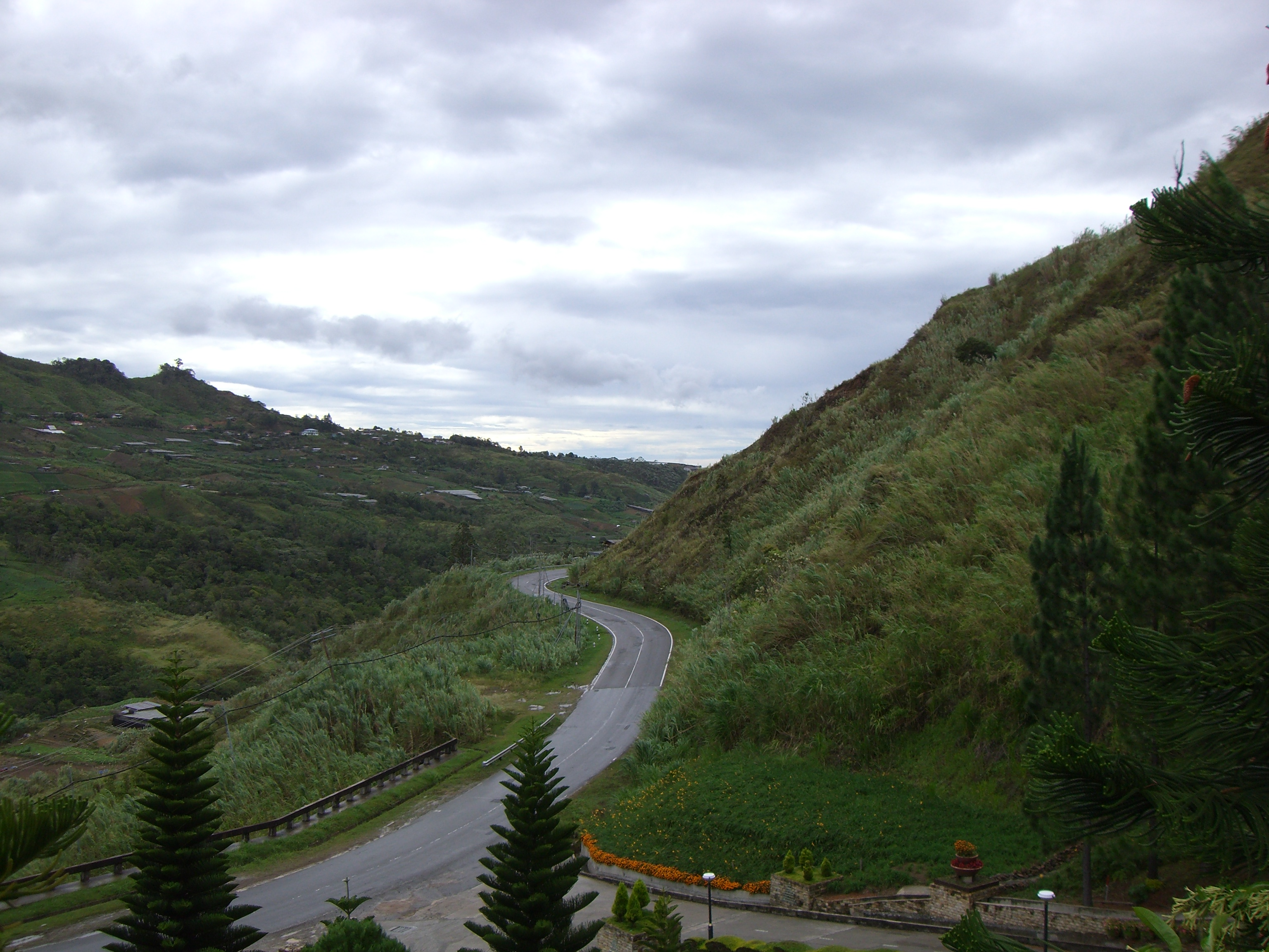 highway running from Ranau to Kota Kinabalu at Kundasang, Sabah